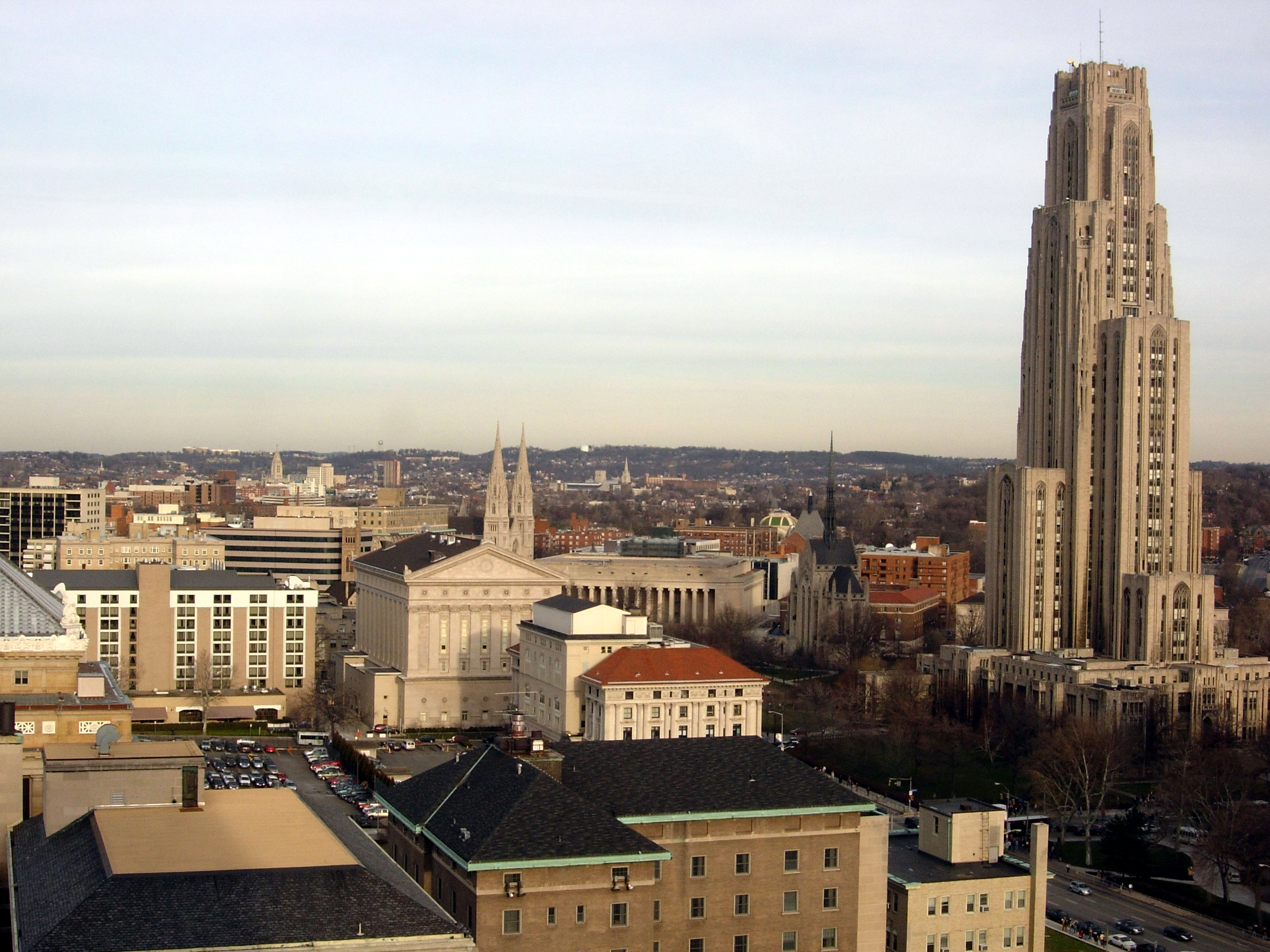 Cathedral of Learning, Heinz Memorial Chapel and other monuments of Pittsburgh University